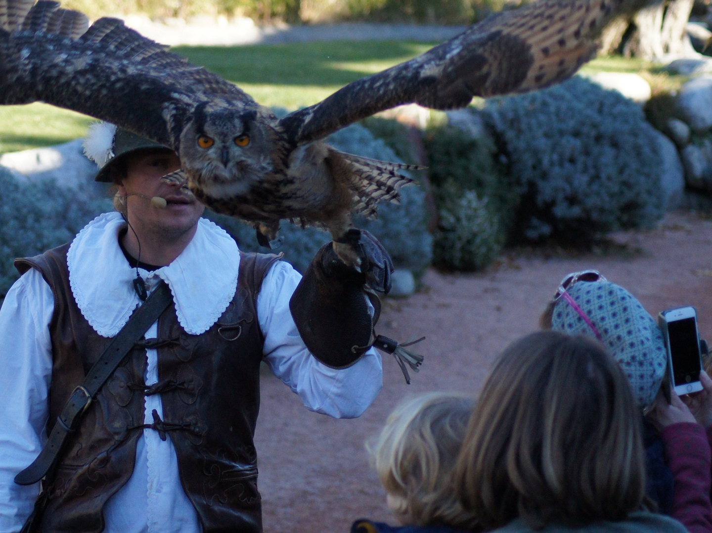 Falconry in Locarno, Bubo Bubo